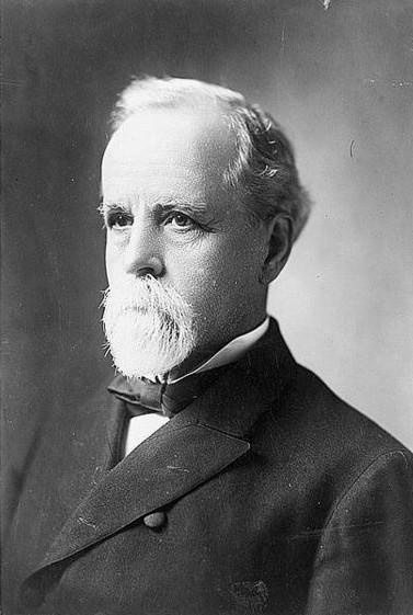 John F. Lacey (1841 - 1913), U.S. Representative from Iowa